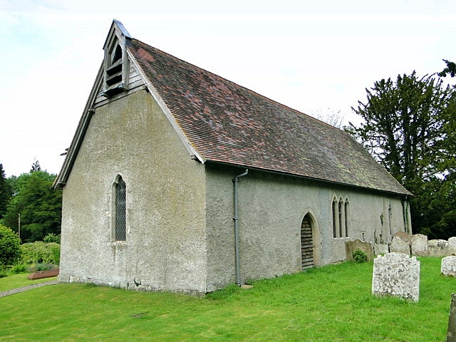 All Saints' parish church, Kinsham, Herefordshire, seen from the southwest